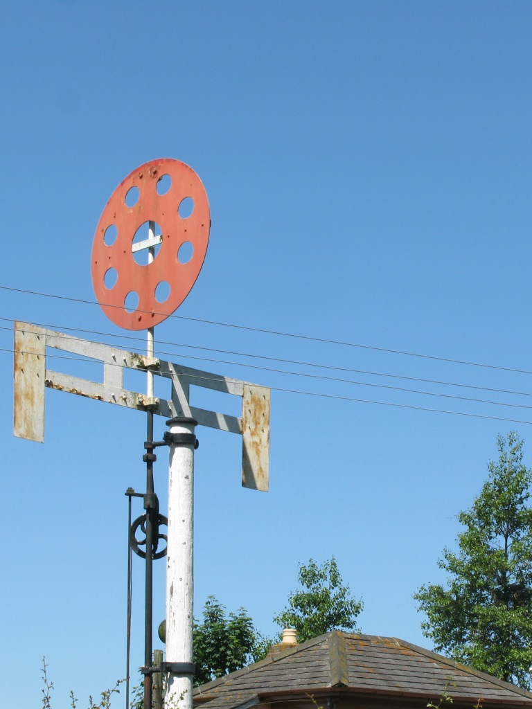 A Great Western Railway disc and crossbar signal at Didcot Railway Centre, England. This early form of mechanical signal was rotated to show one of two aspects to on coming trains. The disc represents 'all right' and the the crossbar represents 'stop'. On this one the extended tails on the crossbar were a later modification to identify signals protecting the down line (the one travelling away from London).